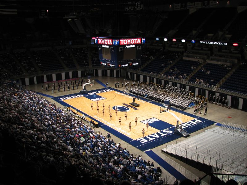 Inside of the Bryce Jordan Center